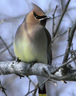 Cedar Waxwing (Bombycilla cedrorum)